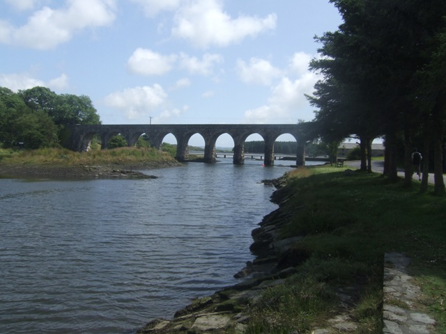 Ballydehob Viaduct West Carberry Tramway and Light Railway. The first train ran across the viaduct in 1886 and the last in 1947.